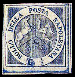 Stamp of Naples ("Trinakria"), 1860